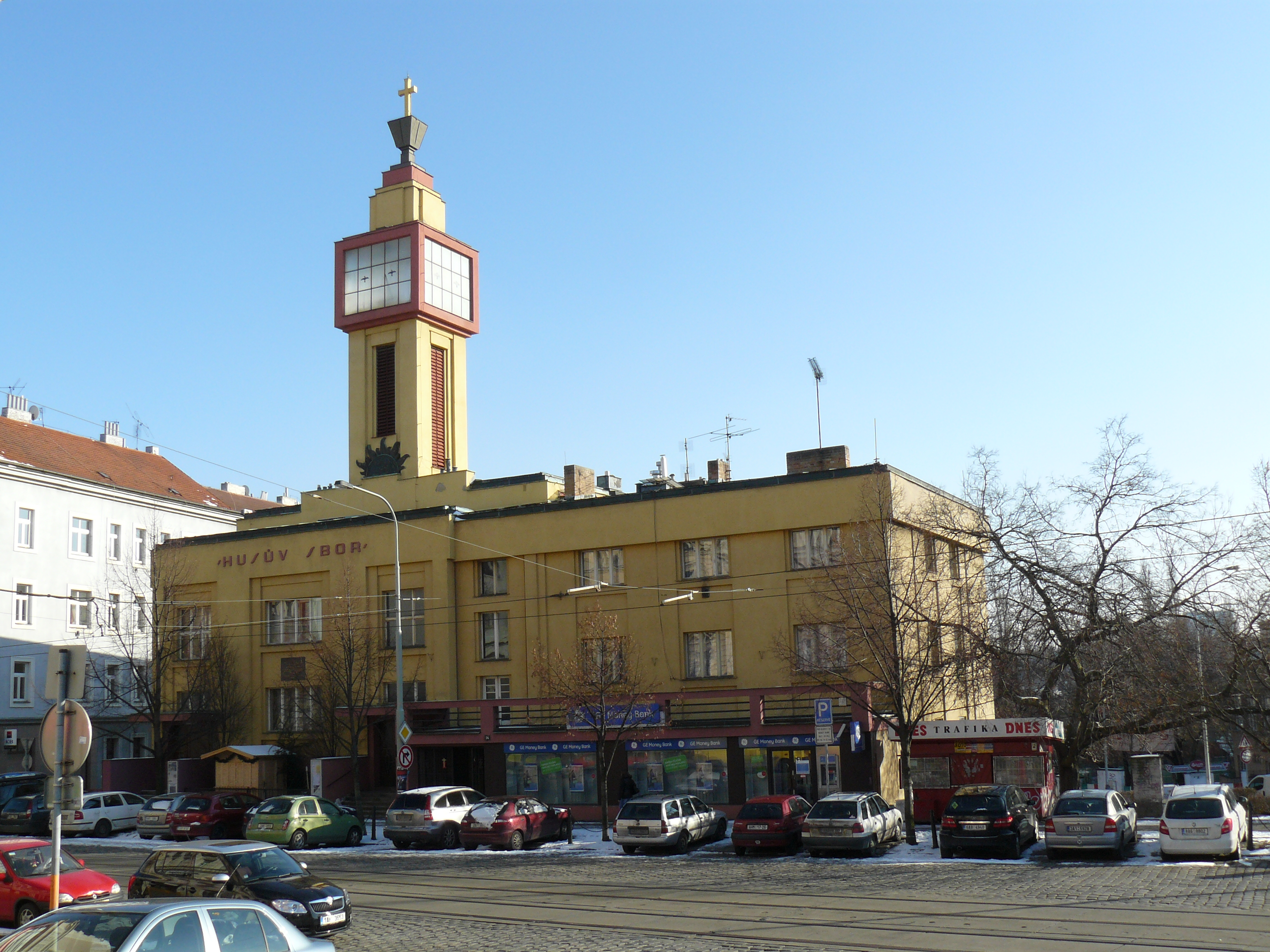 Husuv sbor church Vrsovice